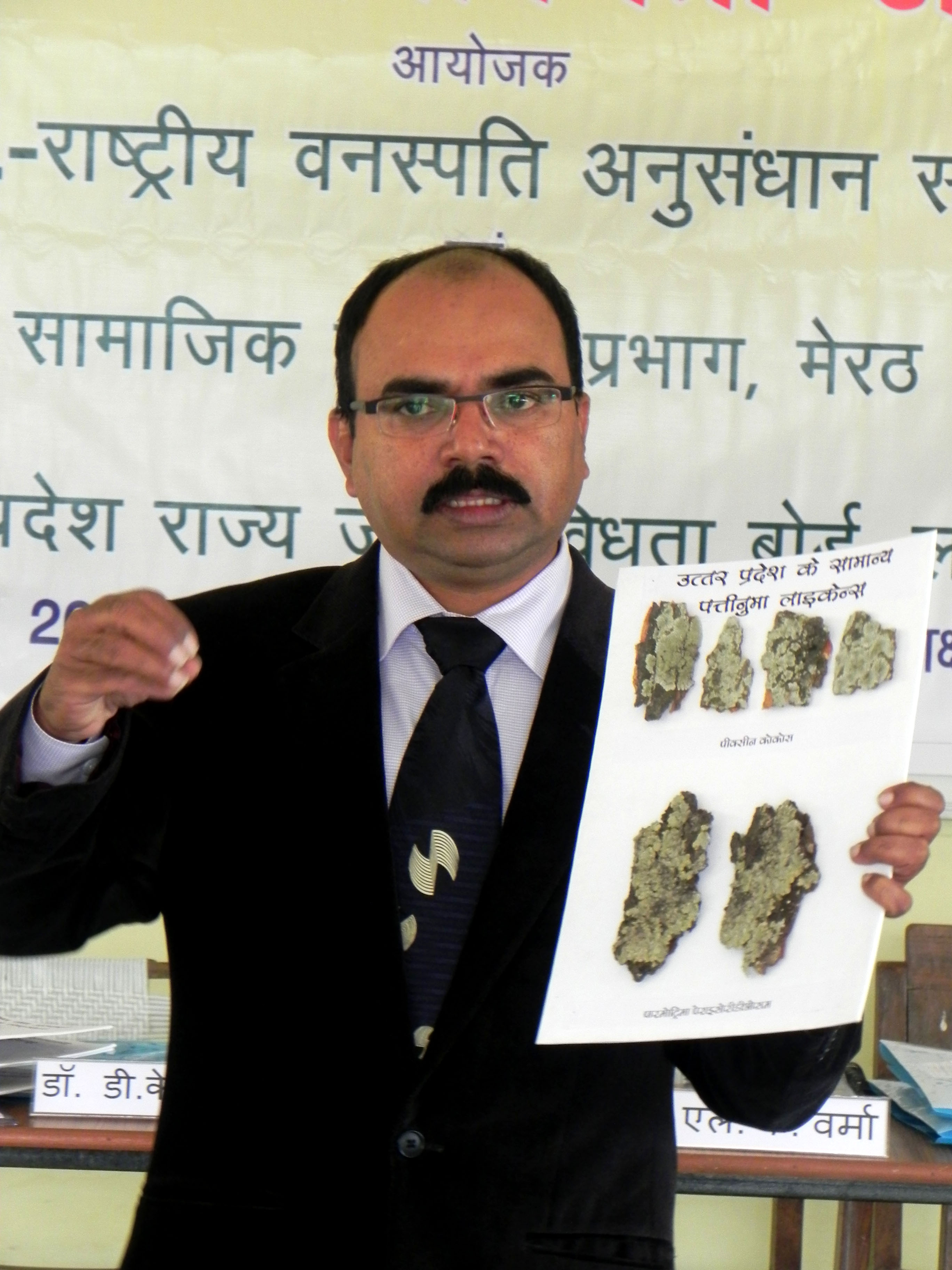 Dr. Sanjeeva Nayaka on training